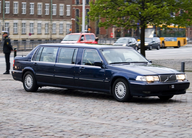 The danish royal house vehicle "Krone 11" ("Crown 11"); an extended Volvo S90 1999-modelDansk: Kongehusets køretøj "Krone 11"; en forlænget Volvo S90, 1999-model.